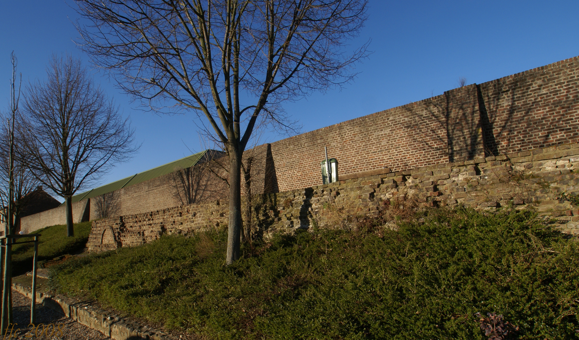 Stokkem (Belgium) Stadswal - City Walls - Muralles de la ciutat